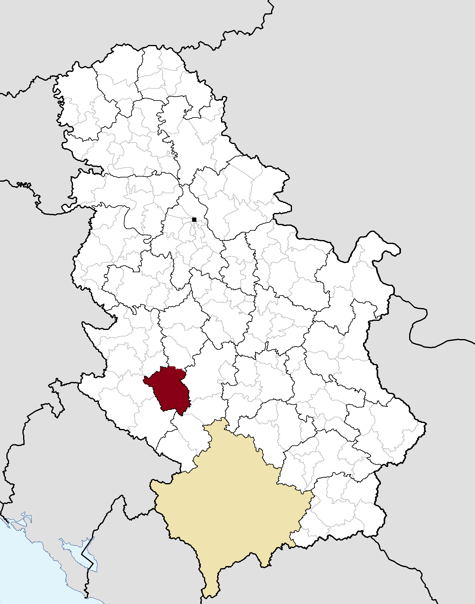 Municipal location in Serbia